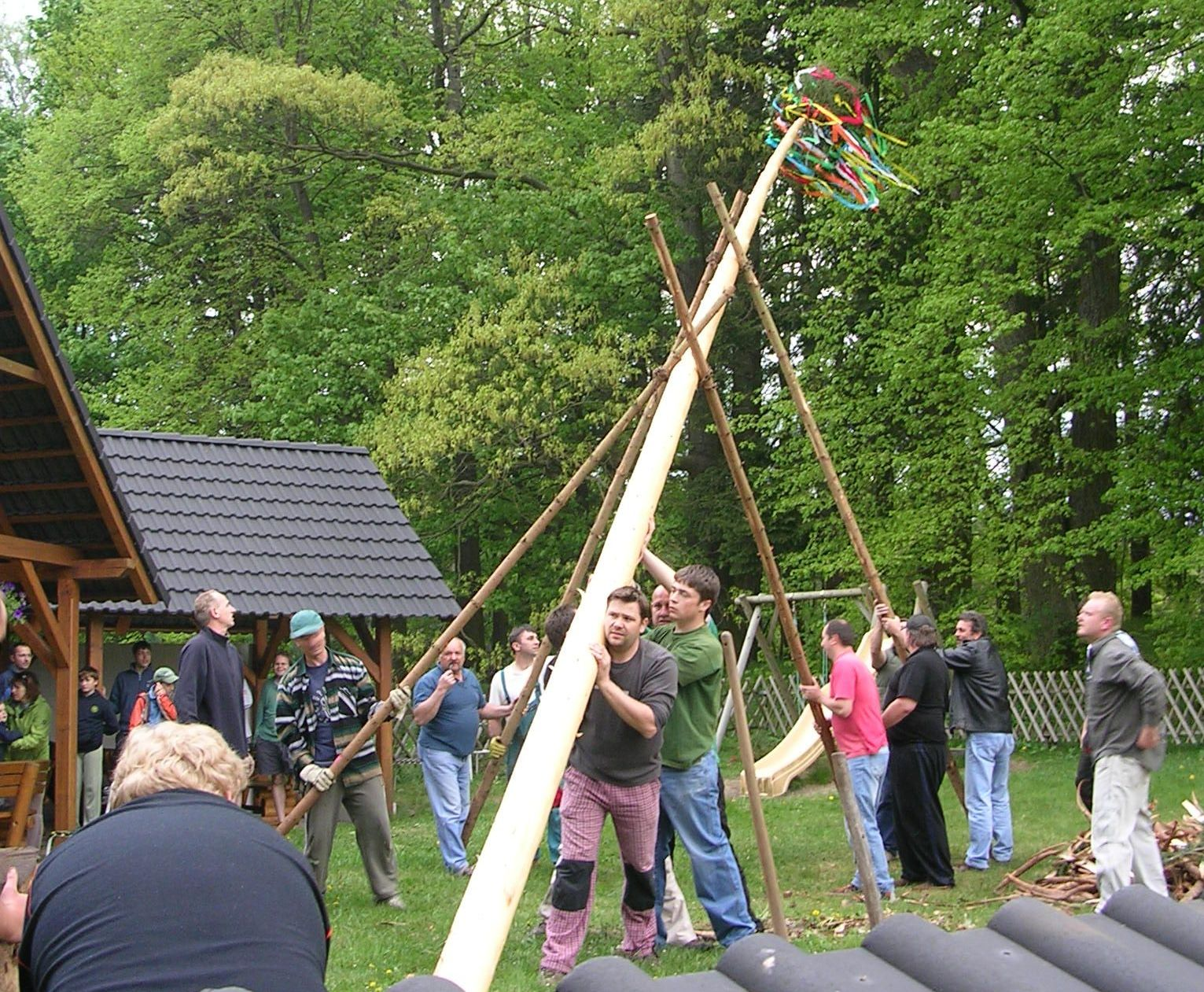 Suchdol nad Lužnicí-Františkov, South Bohemian Region, the Czech Republic.